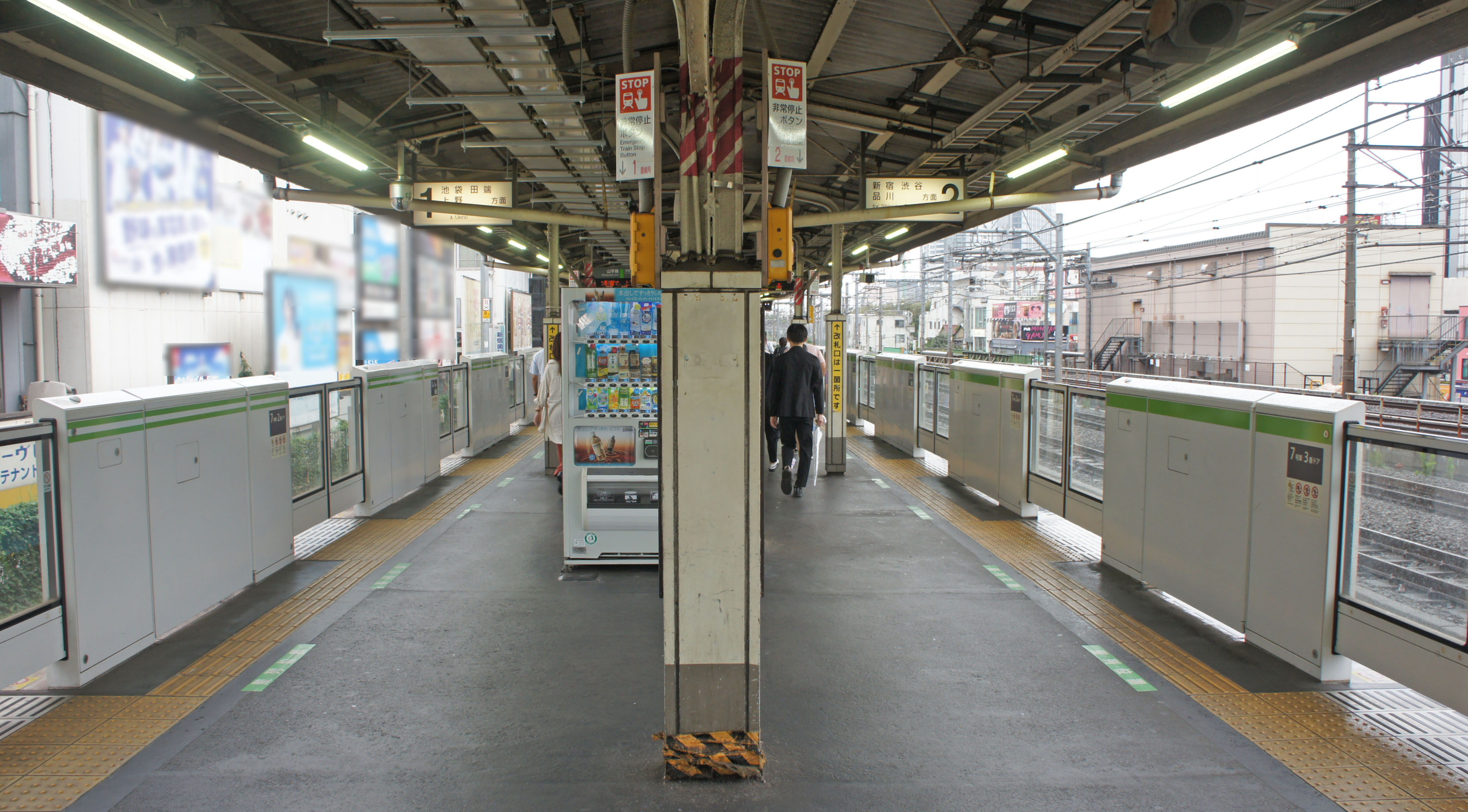 Platform of JR Shin-Okubo Station